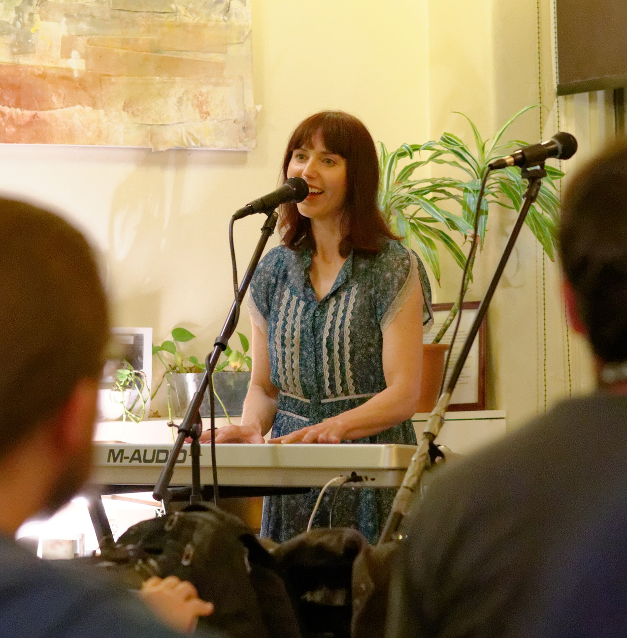 Shannon Hurley performing live at "Muse on 8th" cafe in Los Angeles California on February 21, 2014